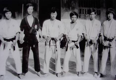 Một trong những thế hệ học trò đầu của võ sư Lê Văn Thạnh (ảnh chụp tại võ đường Bodankumi)